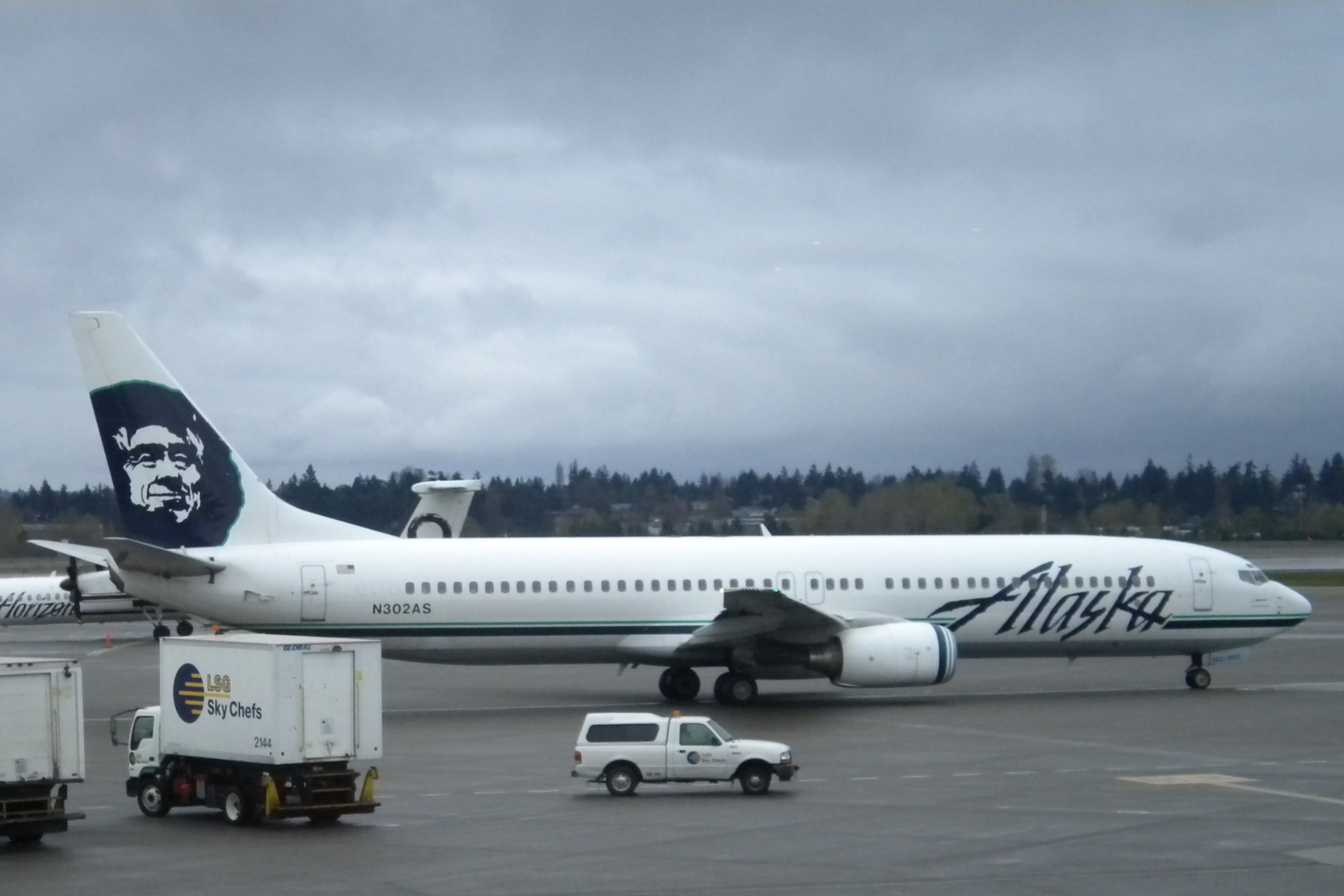 A photo of an Alaska Airlines Boeing 737-900 (N546AS) at SeaTac Airport.